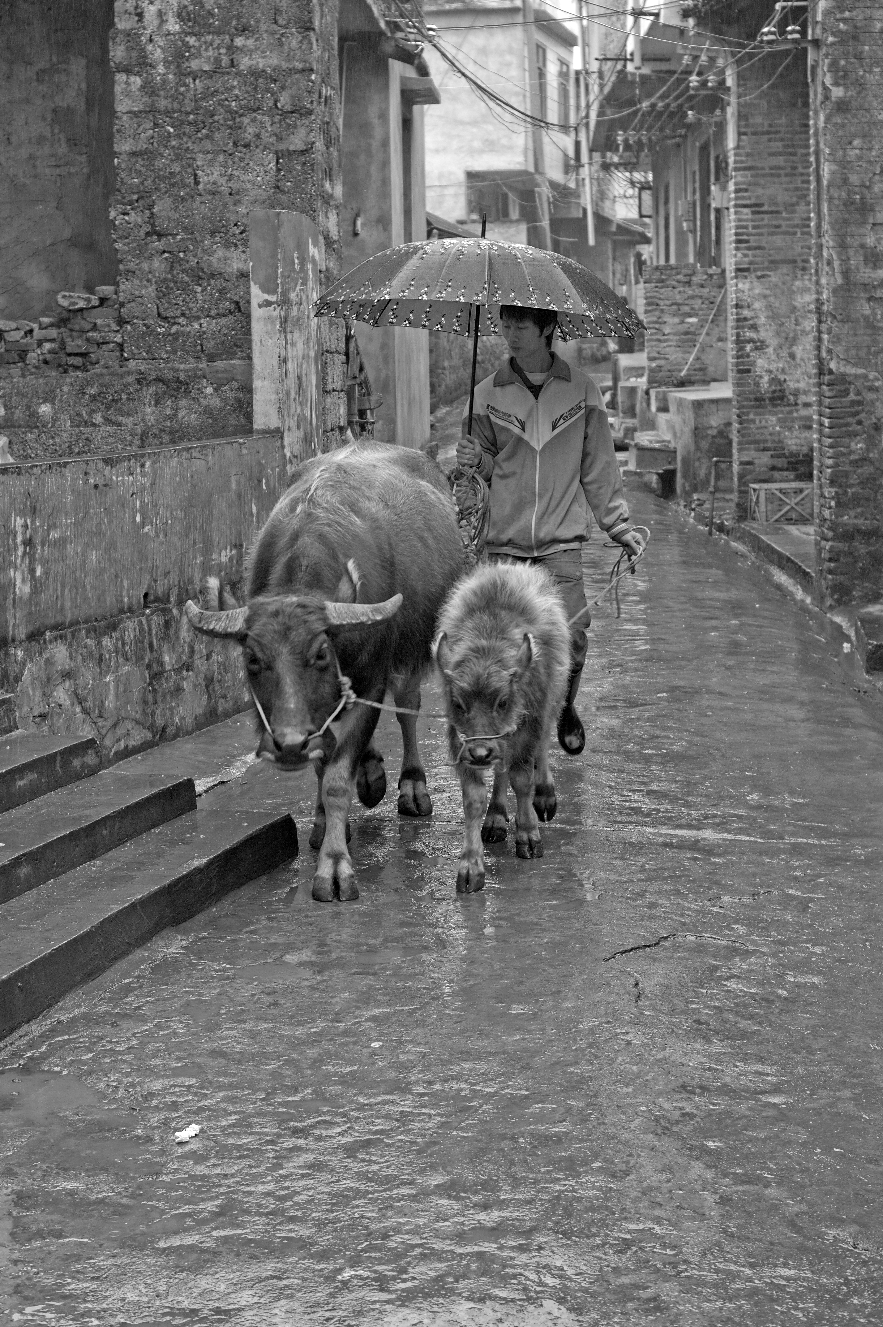 A man is walking inside a village of China under an umbrella and with two oxen. Yangshuo, China.